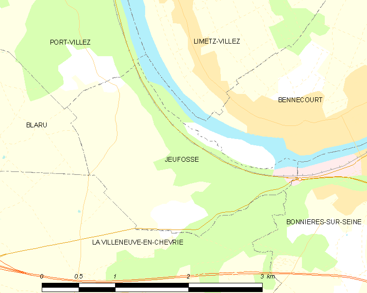 Map of French municipality Jeufosse